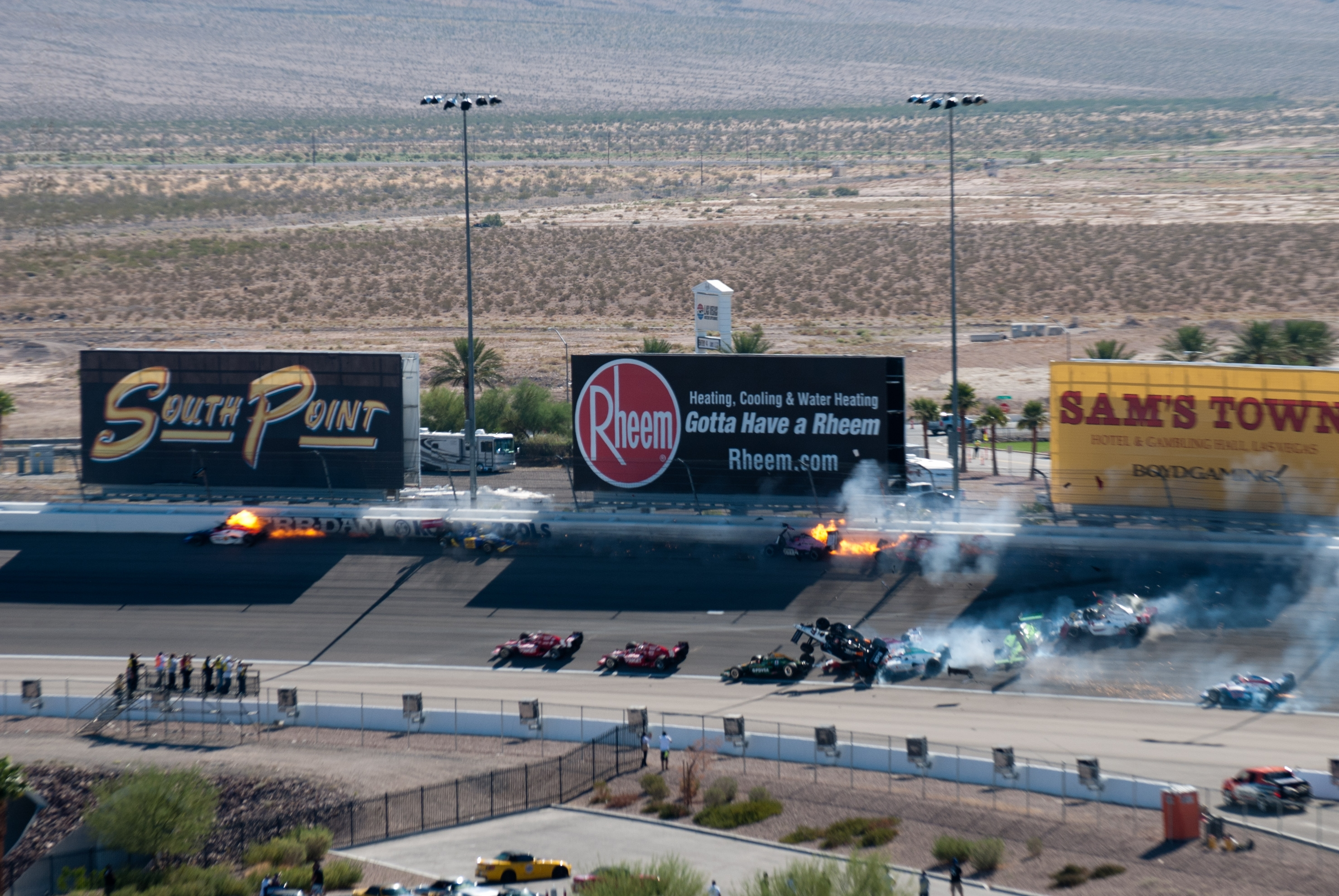 The fatal crash of Dan Wheldon in Las Vegas.